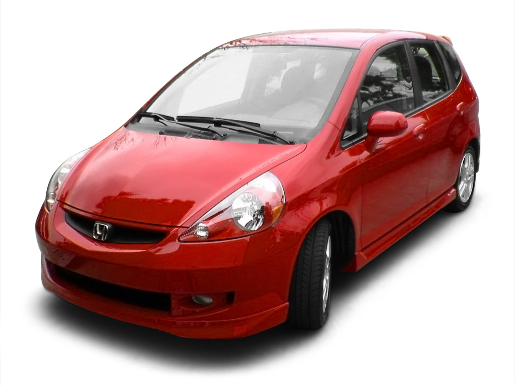 2007 Honda Fit Sport in Milano Red. Car pictured is a press vehicle and not privately owned. The camera used is a Sony Ericsson S710a.